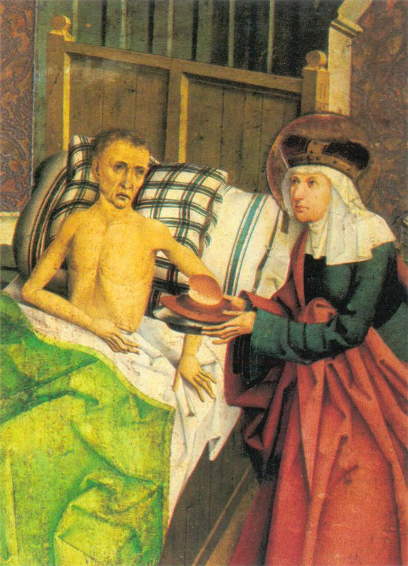 Saint Agnes of Bohemia tending the sick, tempera, linden wook covered with canvas, 124x96.5 cm, National Gallery, Prague